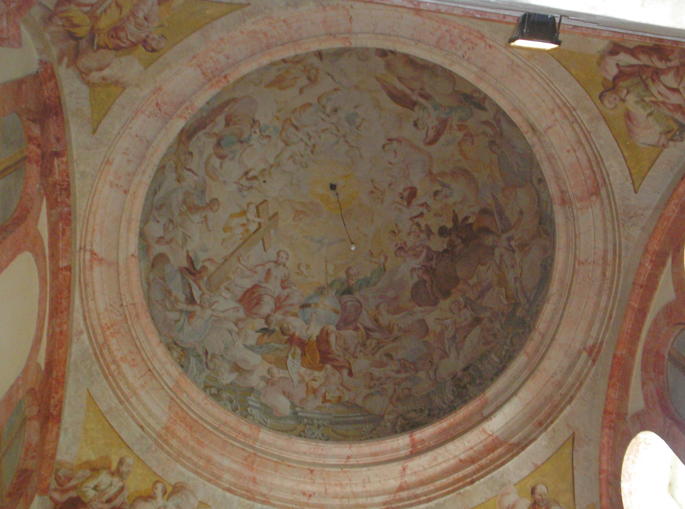 Chapel of Holly Cross, City of Ludbreg, Croatia